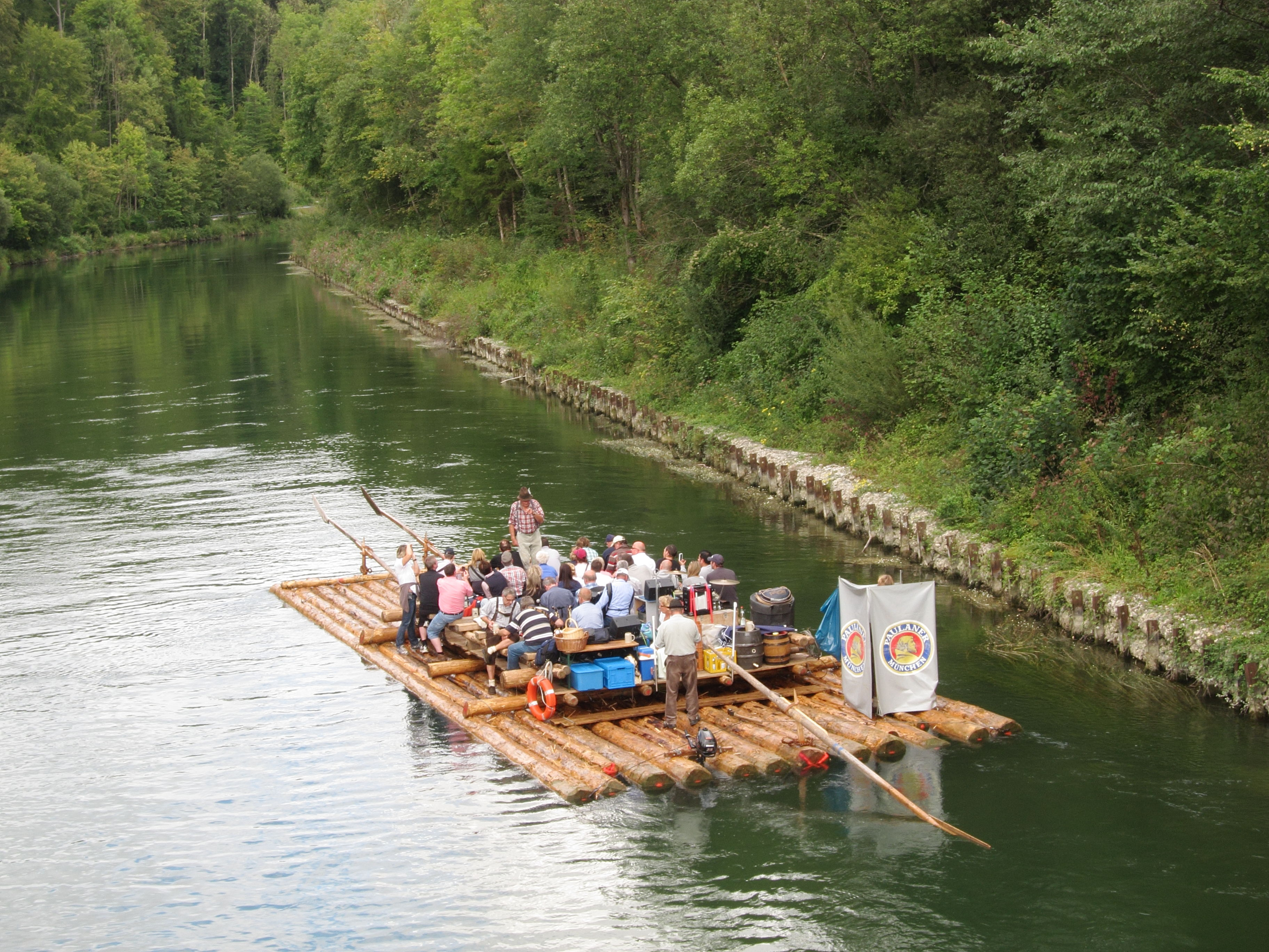 Raft on river Isar (Isar canal)